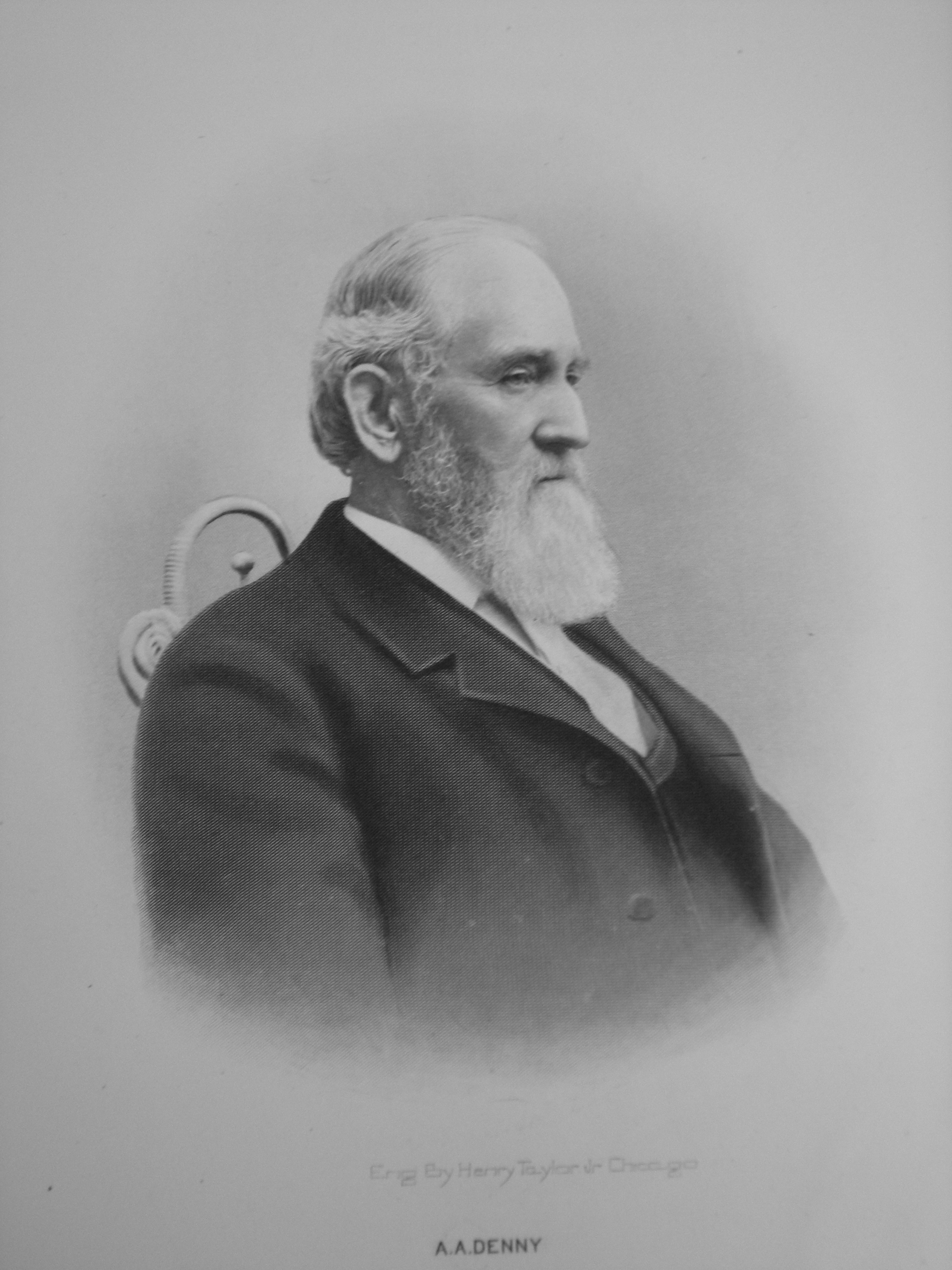 Arthur A. Denny, leader of the Denny Party generally credited as the founders of Seattle.